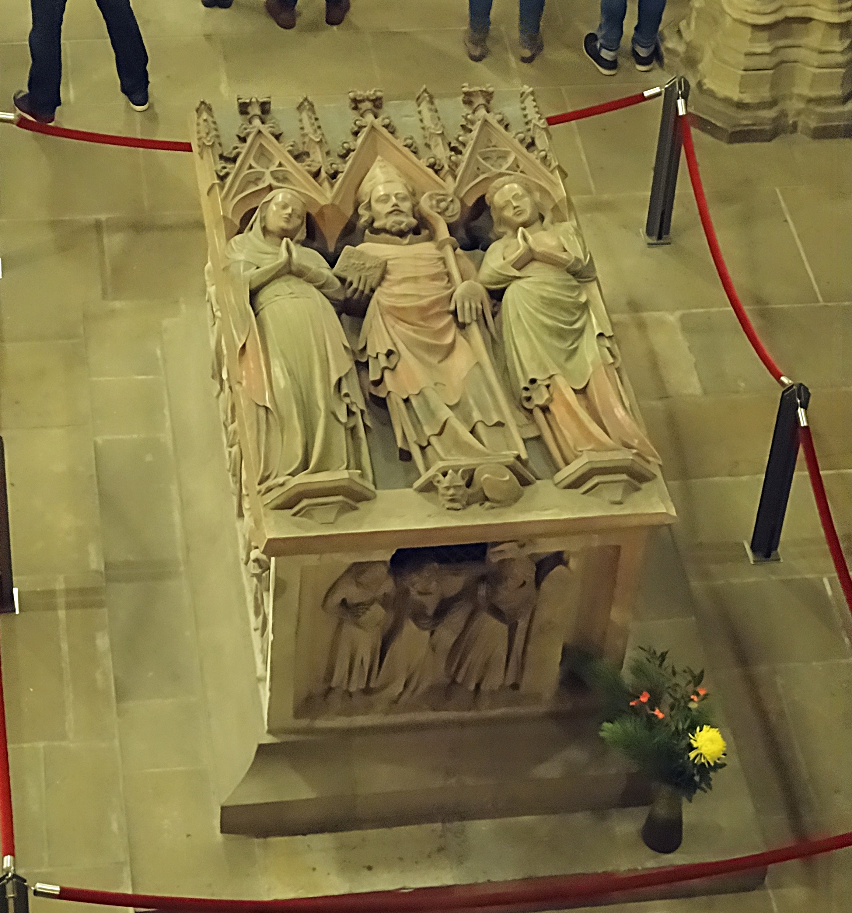 On the cover plate, the Severus Sarcophagus shows St. Severus of Ravenna with his wife Vincentia and his daughter Innocentia.